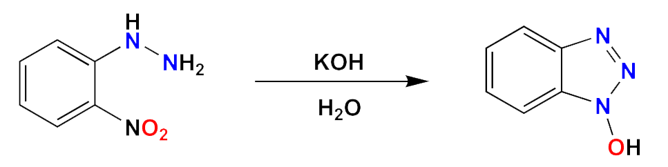 Synthesis of 1-hydroxybenzotriazole